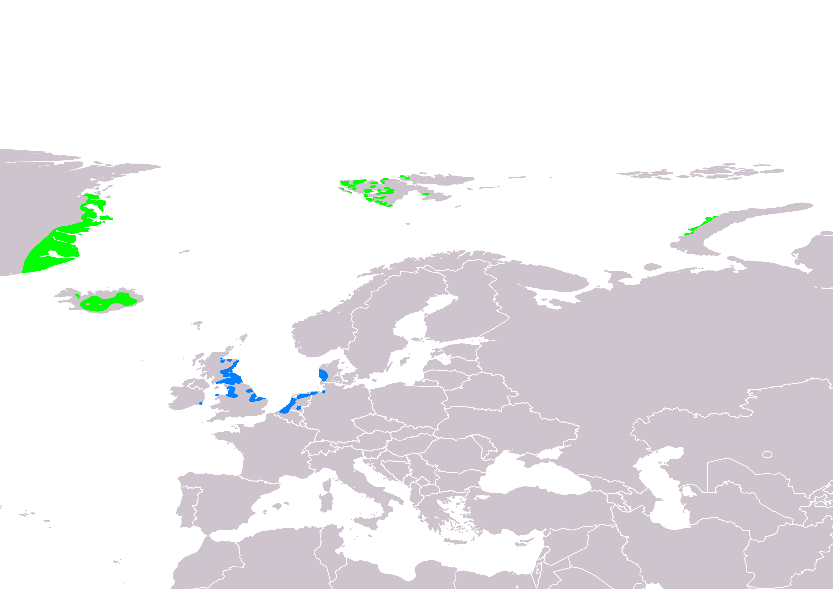 Map of Pink-footed goose (Anser brachyrhynchus) according to IUCN 8.2. Legend: Extant, breeding (#00ff00), Extant, non-breeding (#007fff).